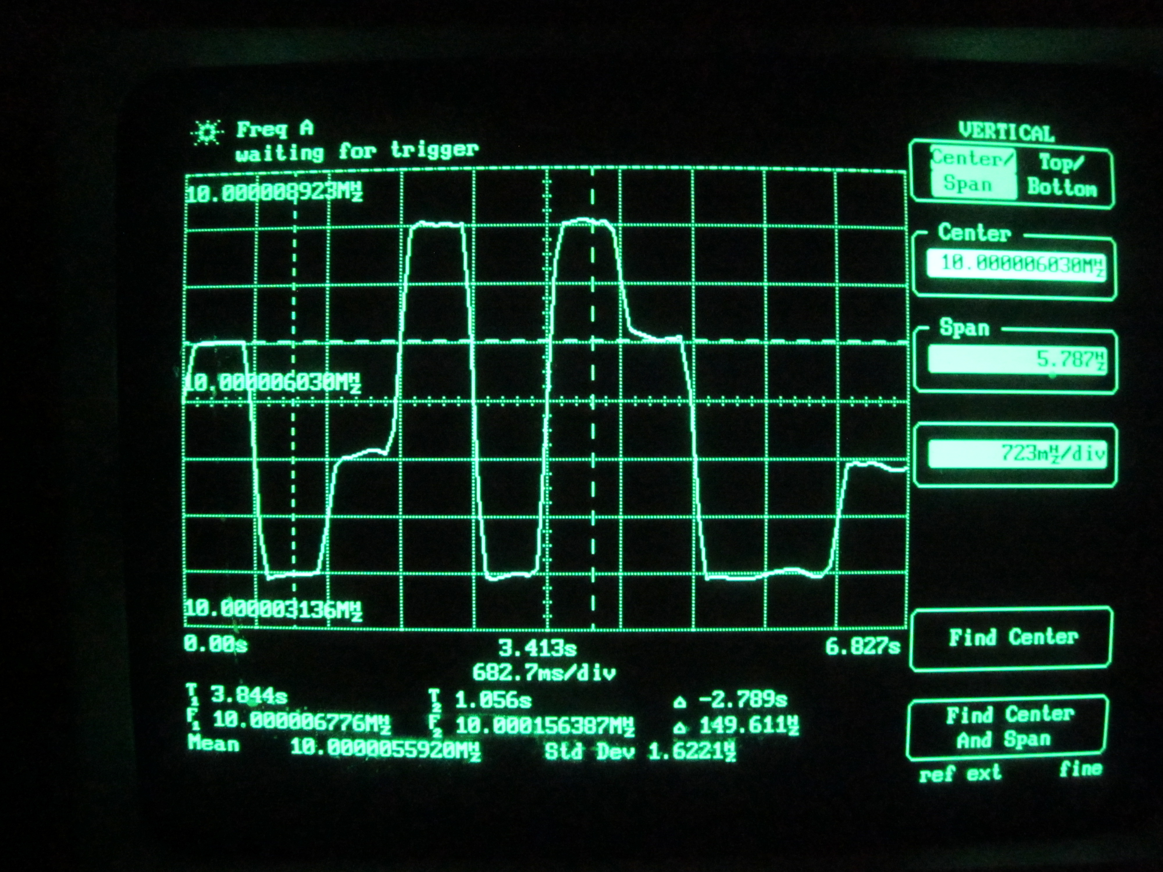 This is a picture of an Agilent Modulation Domain Analyzer 53310A showing the narrow band 4-FSK signal. The signal is produced by a Raspberry Pi computer.